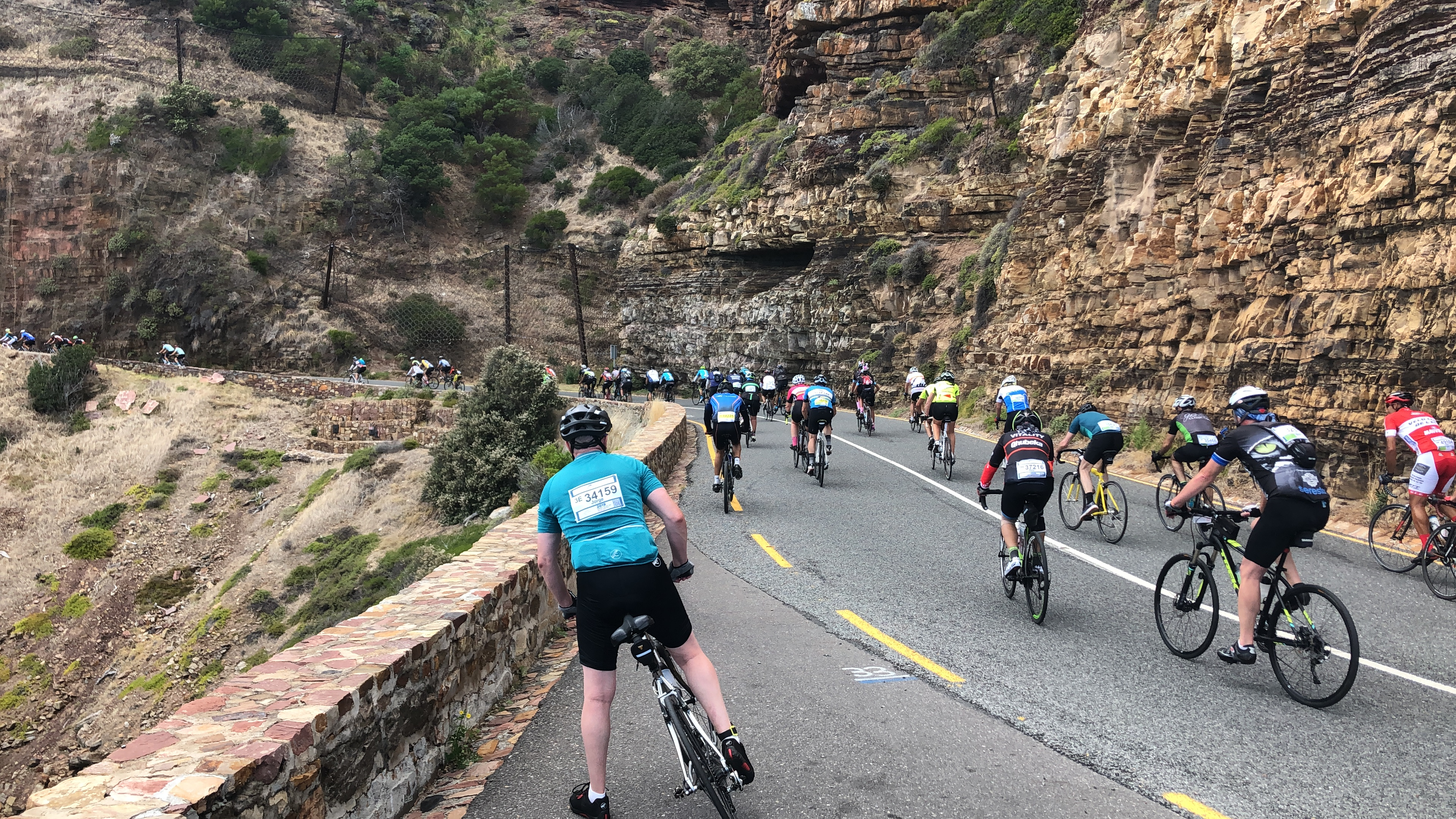 This is an image with the theme "Play" from: South Africa